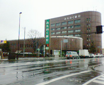 Michinoku bank head office